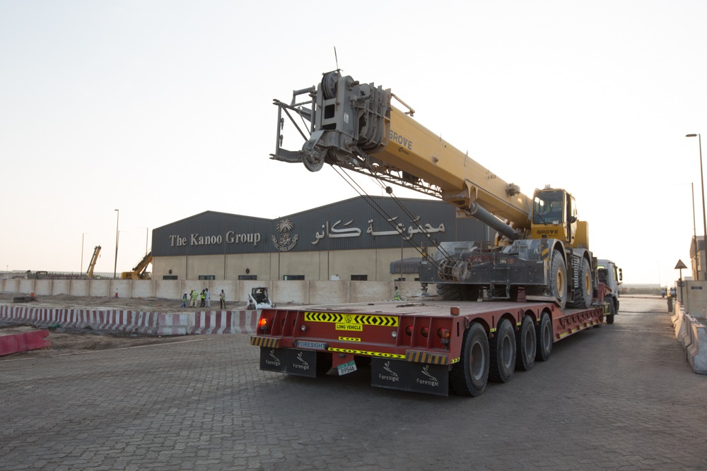 The Kanoo Group facility in Dubai